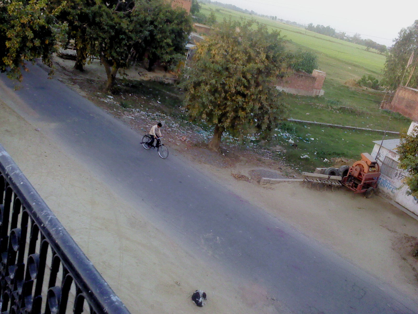 View of main road(Bilhour to Sikadra) than Links To Nataional Highway 2(Delhi-kanpur-Kolkata)..near ramu Gupta Kirana marchent in mangalpur.